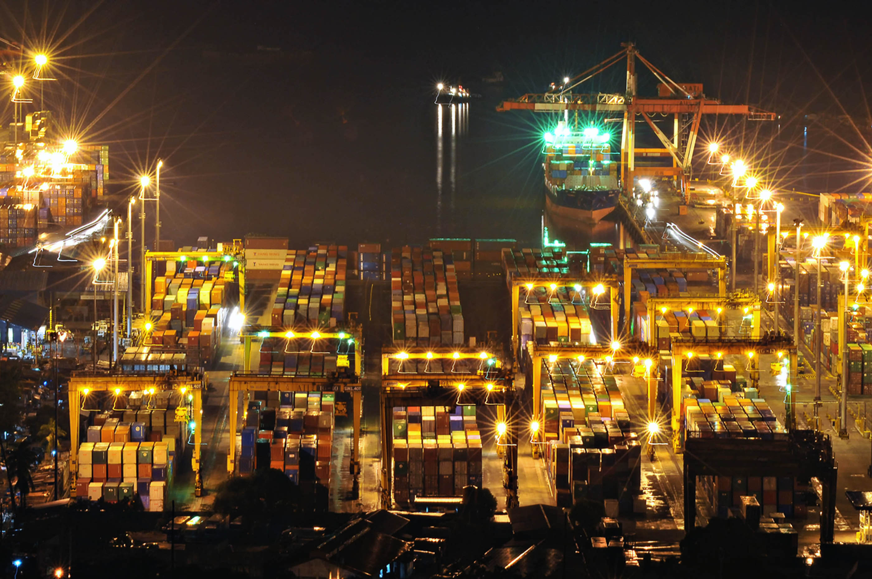 The Port of Manila, the chief seaport of the Philippines